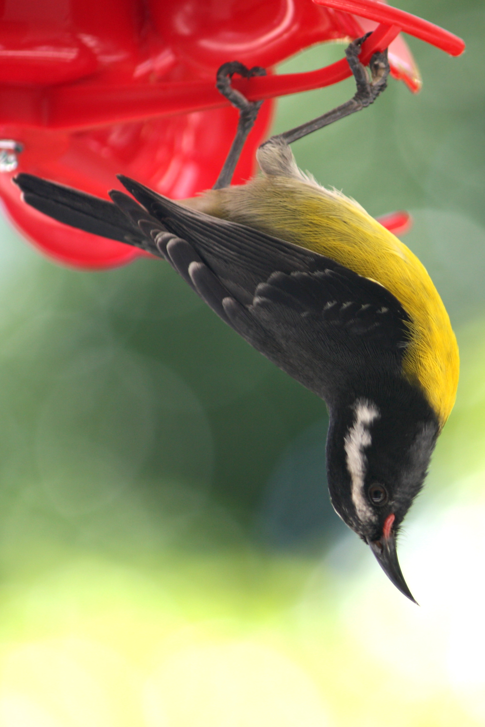 A Bananaquit (Coereba flaveola) hangs from a bird feeder in Coulibistrie, Dominica.